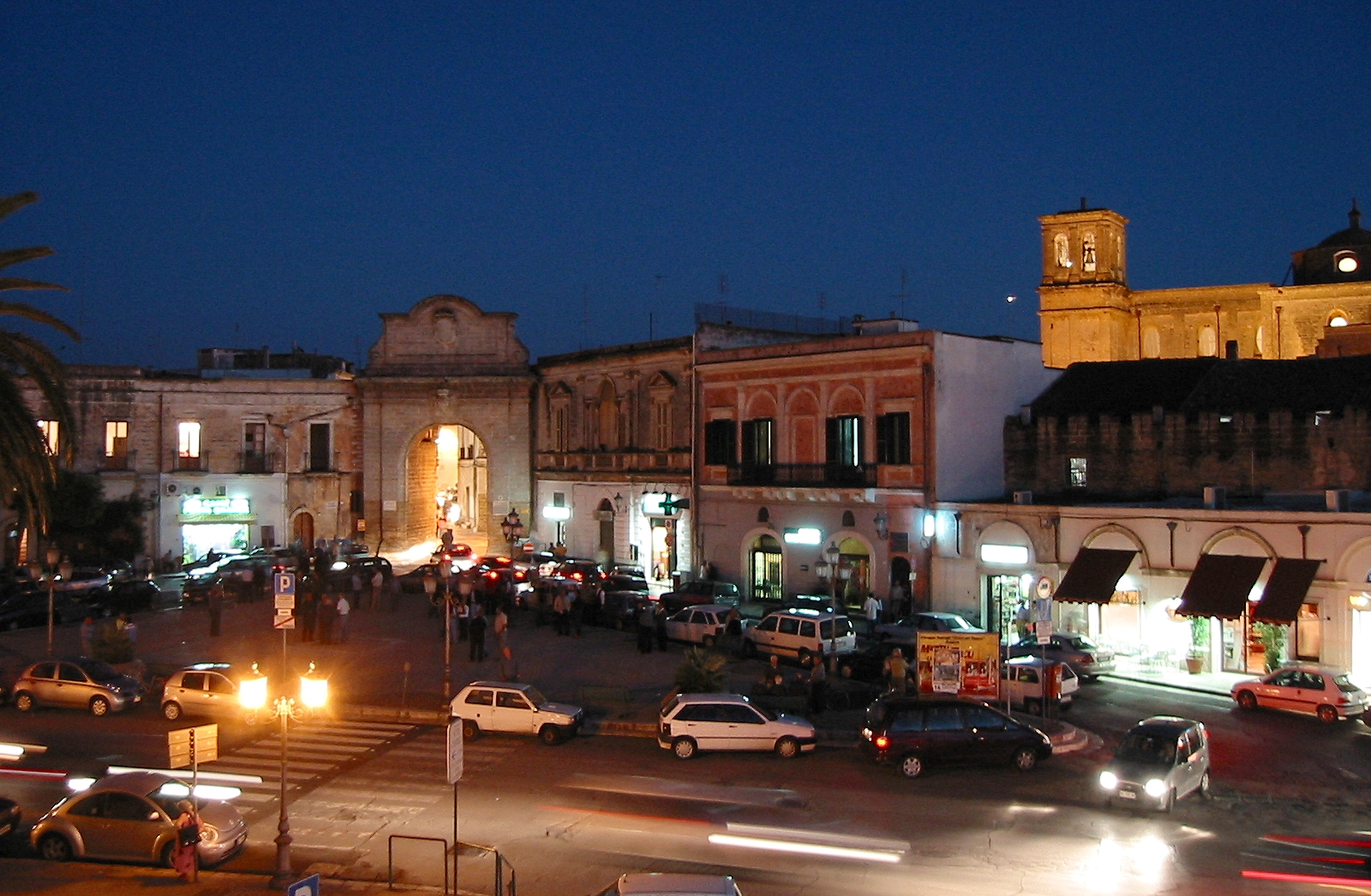 La Porta Grande, entrance to the mediaeval city centre of Mesagne in Puglia in Italy.